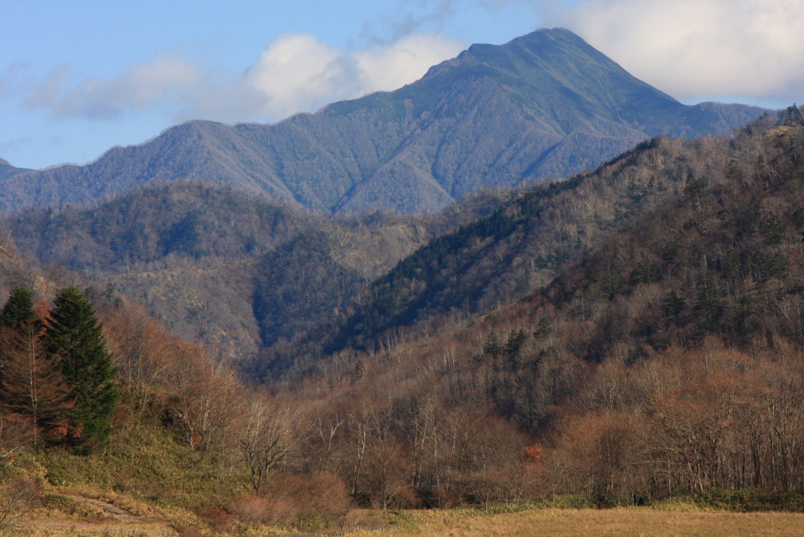 The Southwest side of Mount Kamui seen from Motourakawa Forest Road.